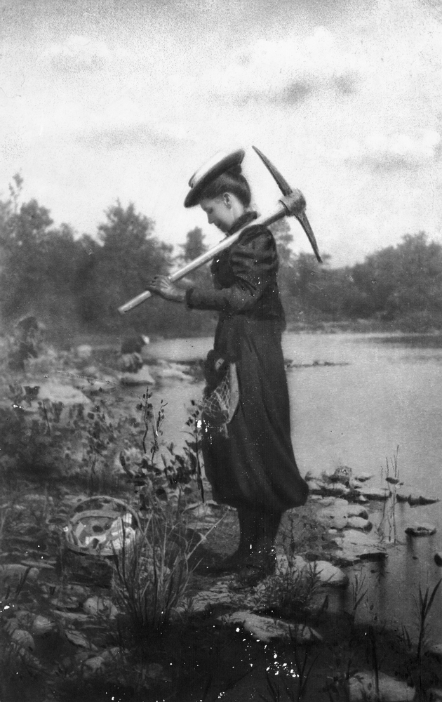 Zonia Baber gathering fossils at Mazon Creek, Illinois, 1895